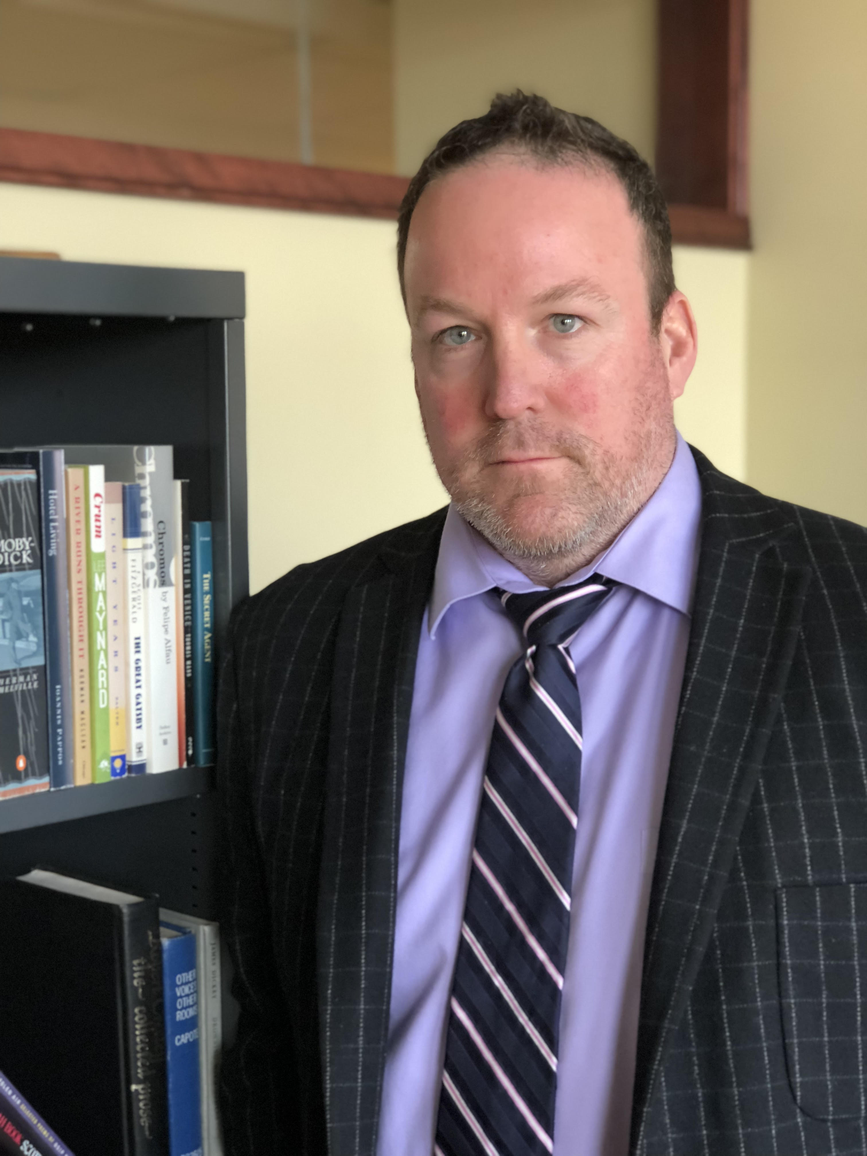 Anthony Swofford at West Virginia University